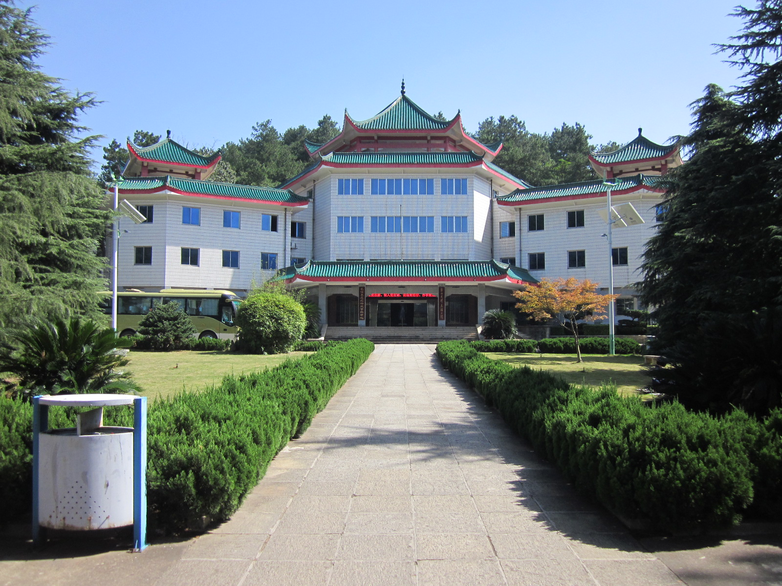 Mao Zedong Public Library